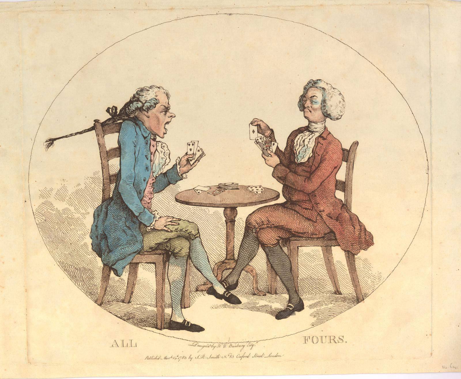 Design in an oval. Two men playing cards at a small round table. The man on the right pulls out an ace of spades from the five cards in his hand and shows it with a grimace of satisfaction. His opponent (left), in profile to the right, looks at it with an expression of consternation, frowning and opening his mouth wide. The pack and other cards lie on the table. The men are probably portraits. The successful player is middle-aged, plainly dressed, with a bob-wig; the other is younger, very thin, and more fashionably dressed, with a long pigtail queue. 14 March 1783 Etching with hand-colouring